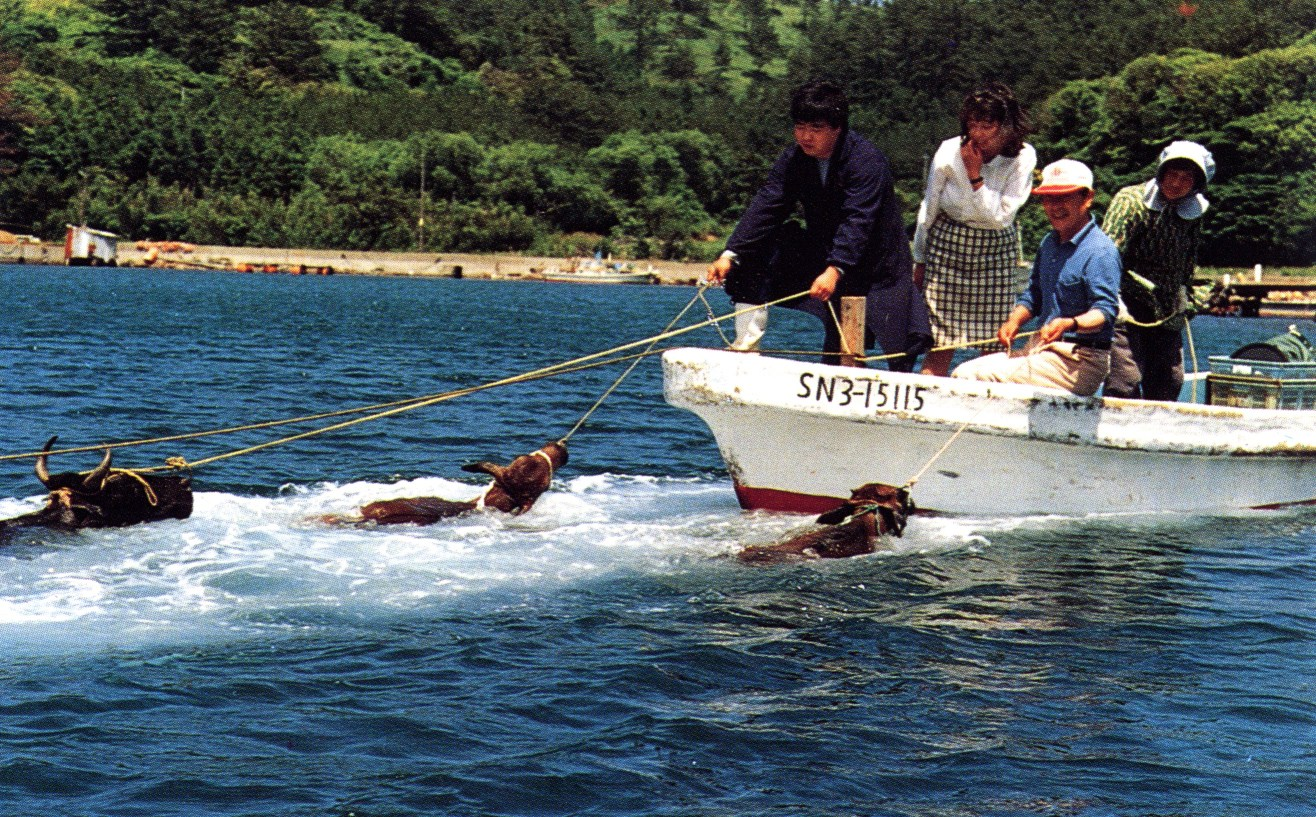 A photograph of the swimming cows in Chibu. They are a kind of "sight" for tourists.